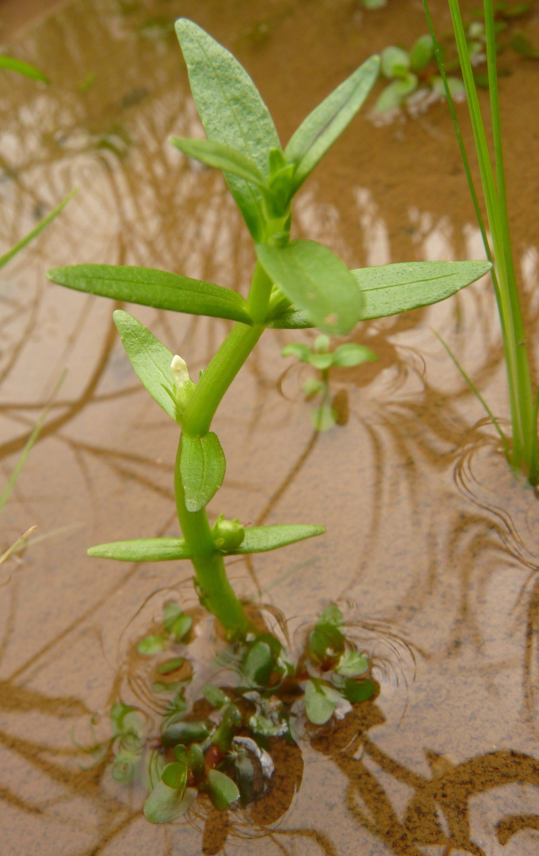 Gratiola japonica